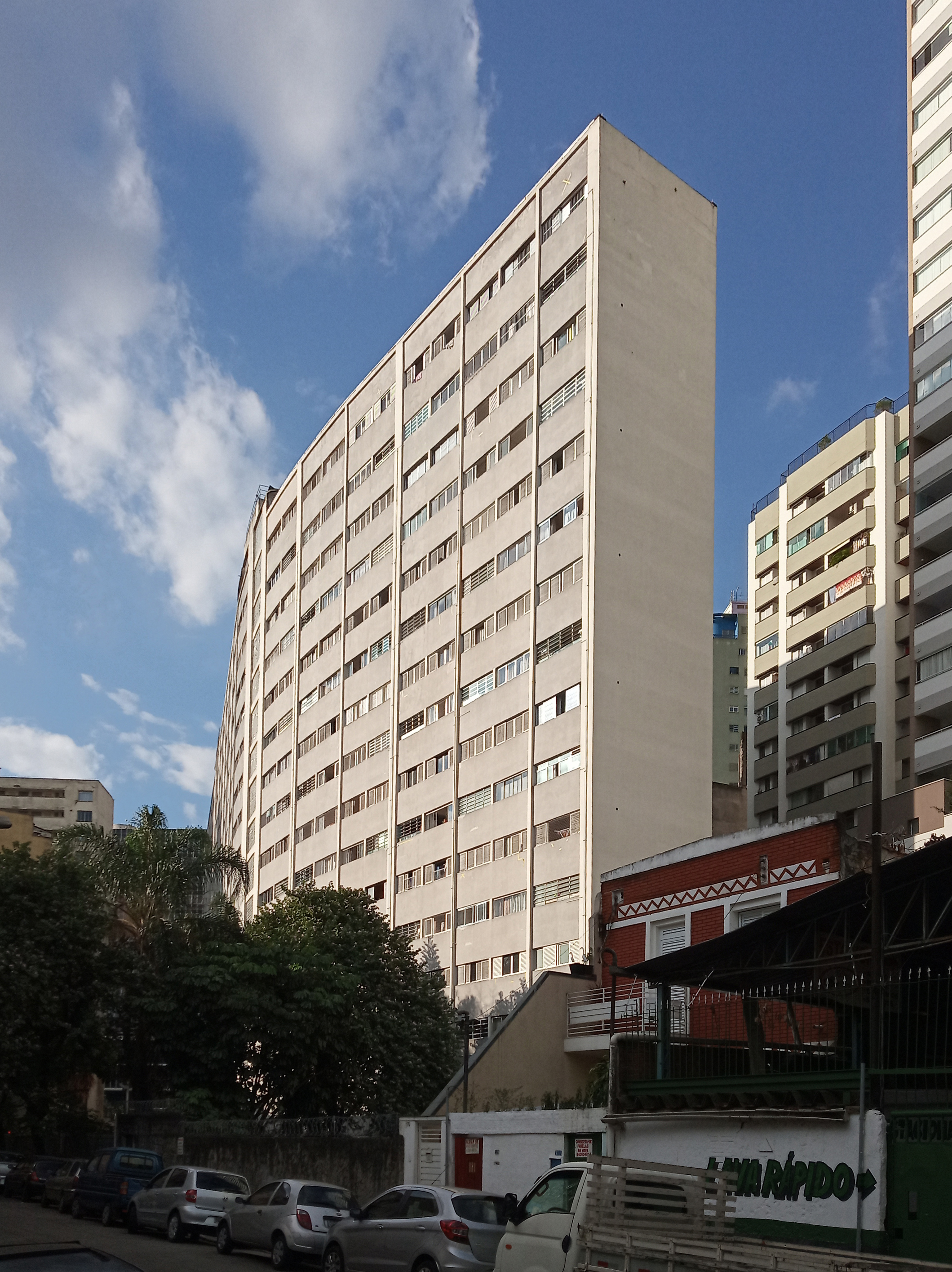 Edifício Japurá - Fachada Leste.